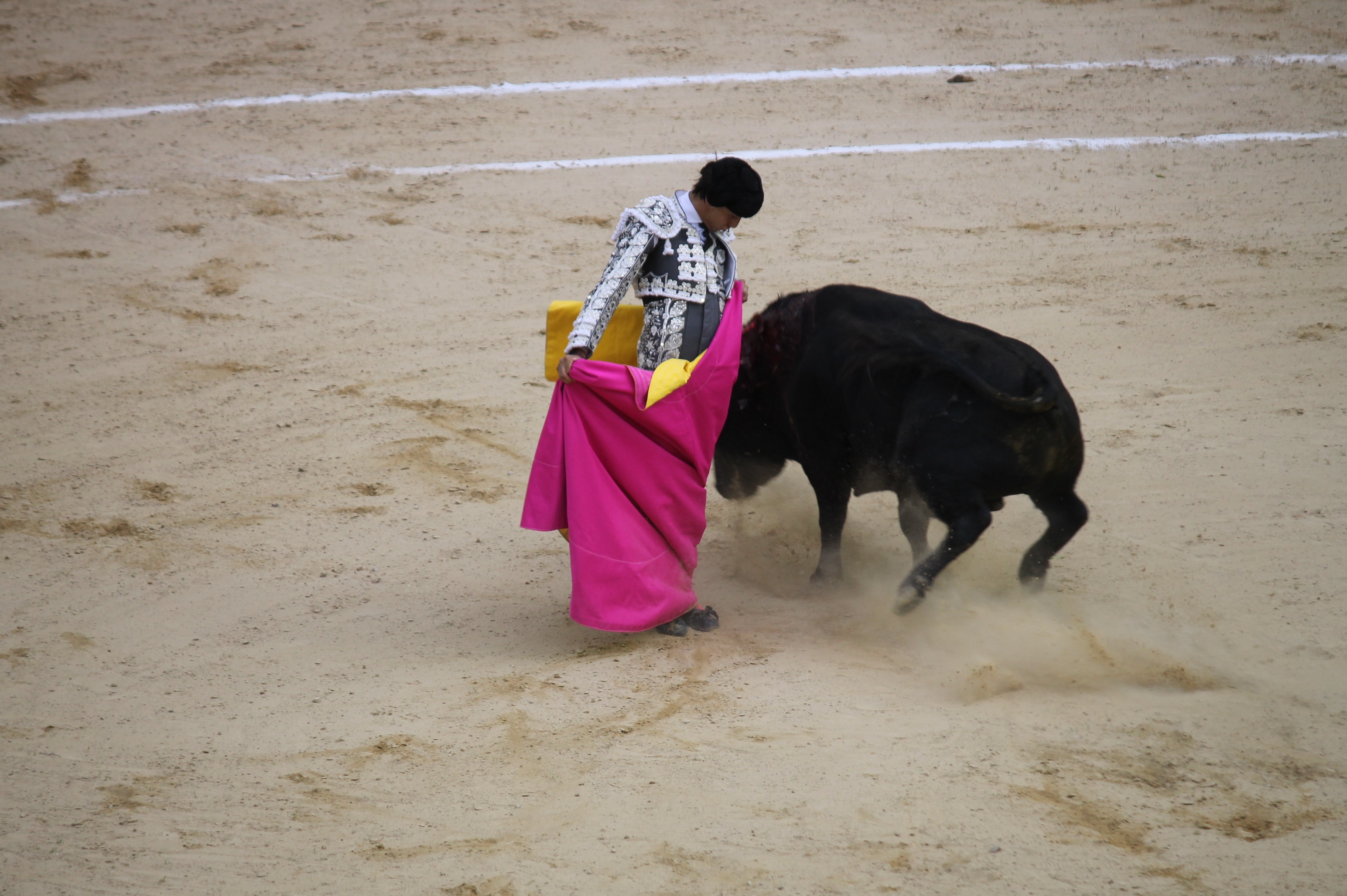 El torero Peruano Roca Rey en la Segunda de Abono de la Santamaría de Bogotá en 2018.